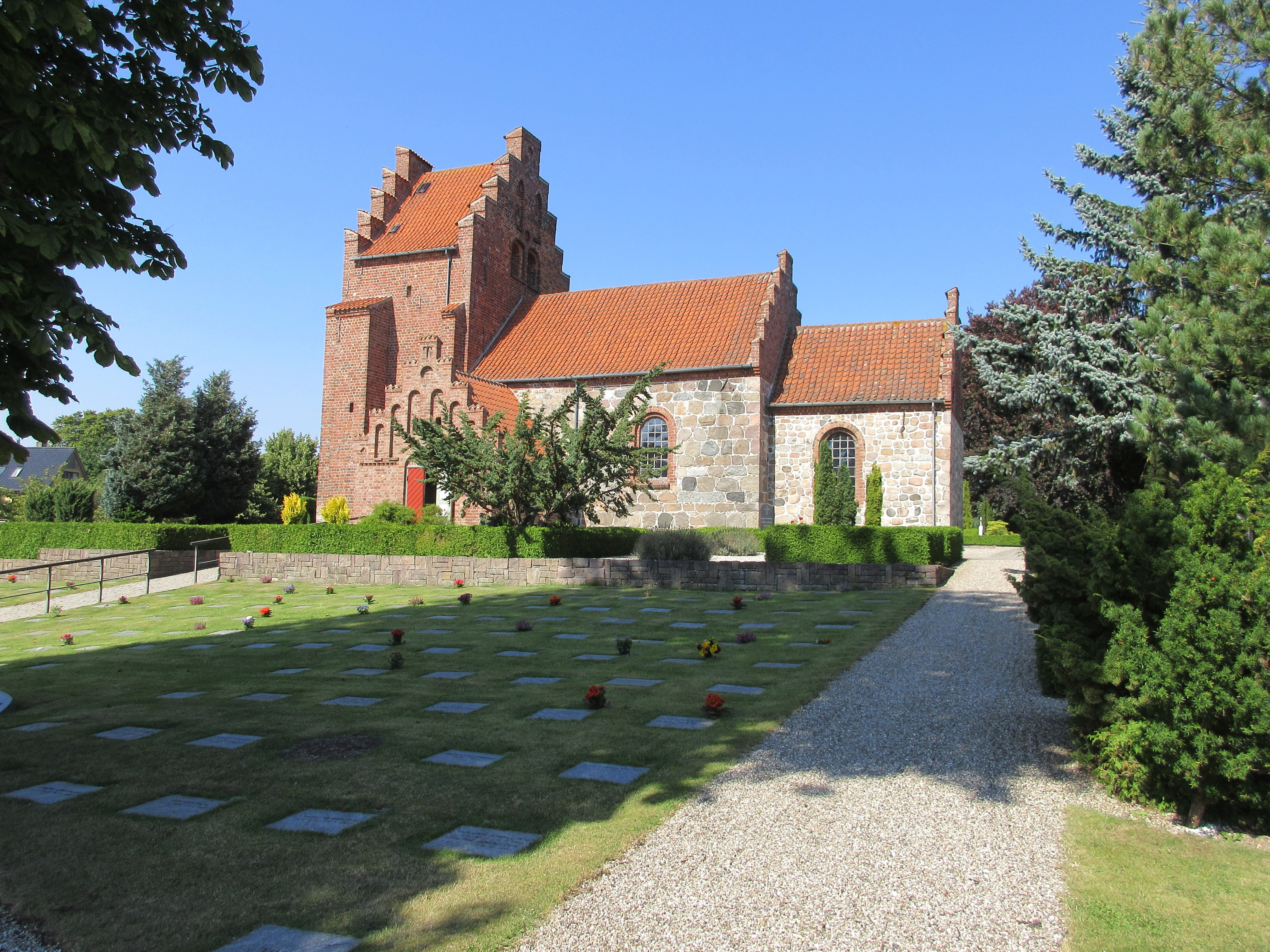 Blovstrød Kirke in Allerød Municipality, Denmark